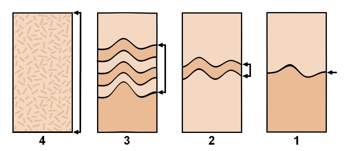 Buckle folds: 1 - single interface; 2 - two interfaces, one layer; 3 - several layers; 4 - mineral fabric of the rock